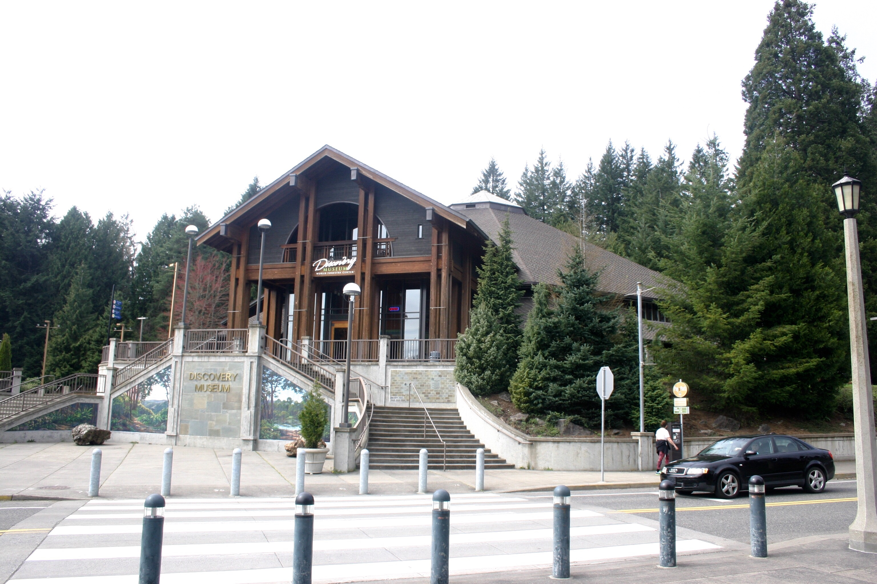 Washington Park-2